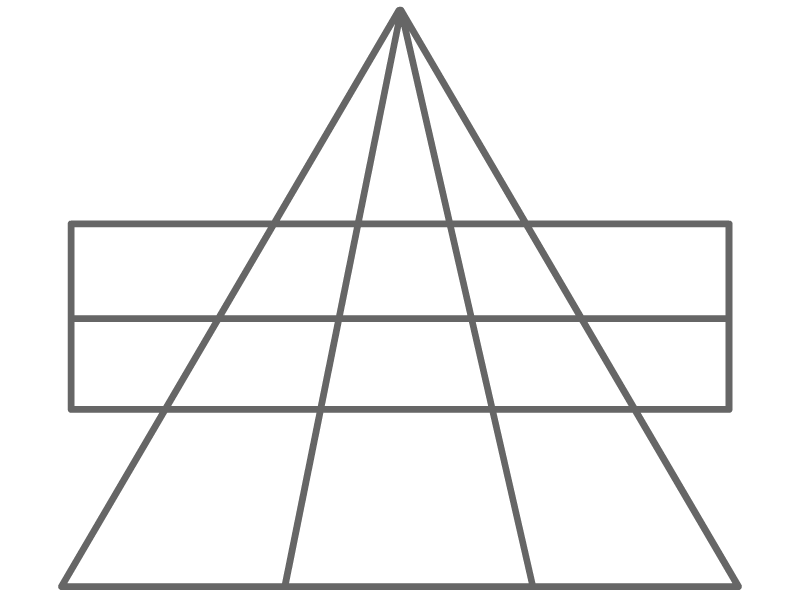 This is the board of Adu puli attam (ta ஆடு புலி ஆட்டம் ).